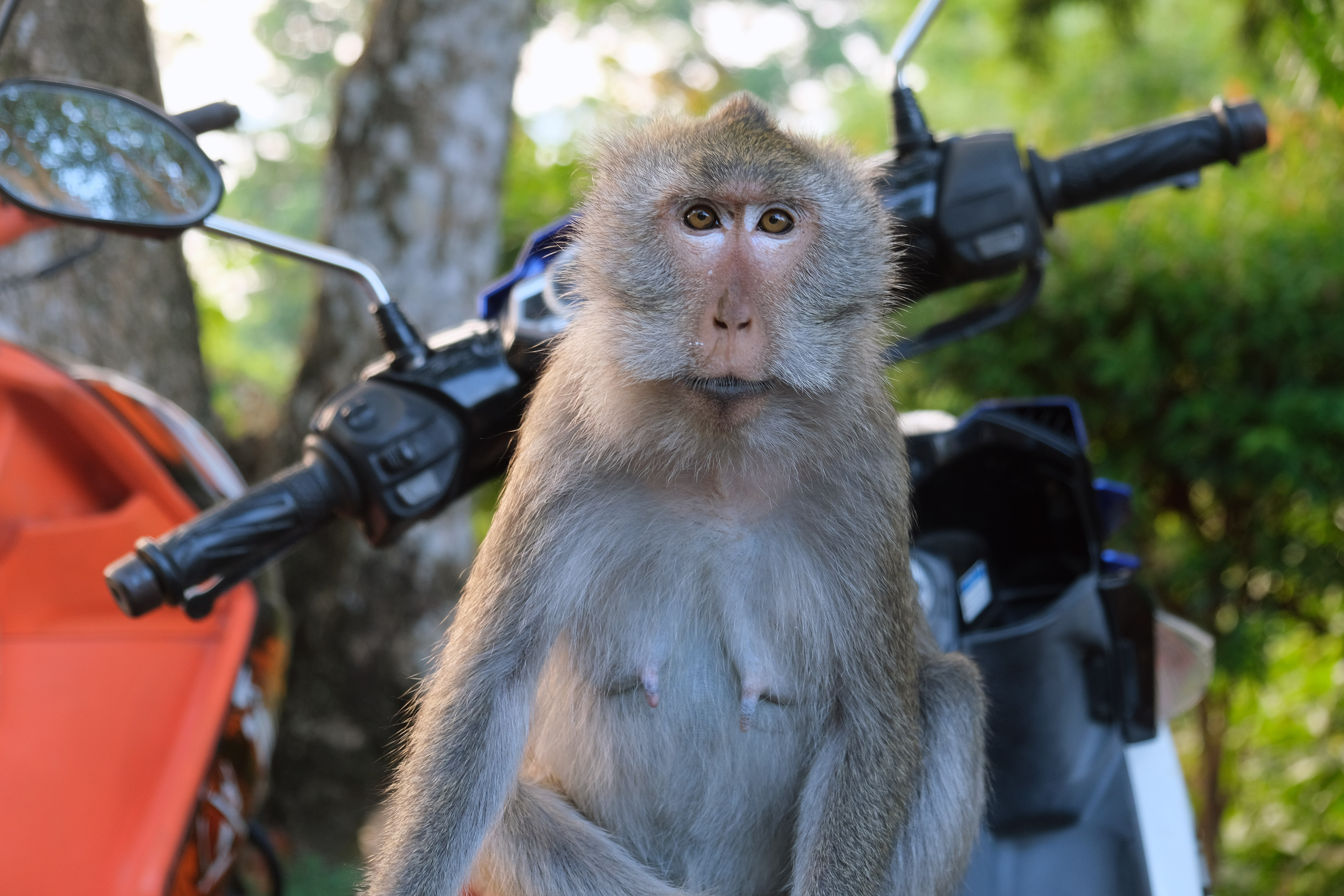 Monkey on a scooter, Kai Bae viewpoint, Koh Chang.